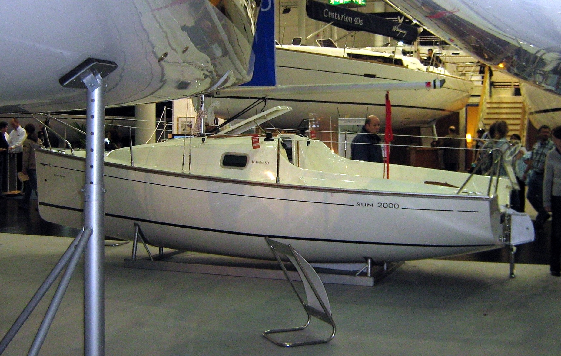 sailing yacht Jeanneau Sun 2000 on exhibition boot 2007 in Duesseldorf/Germany